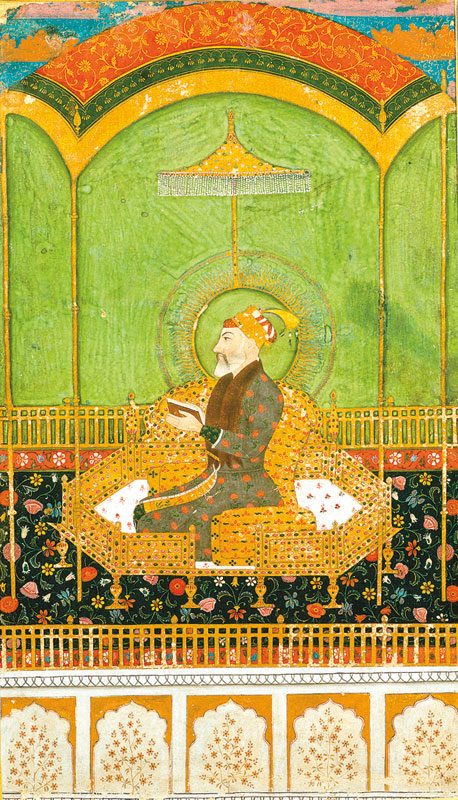 Shah Jahan in Mughal Green